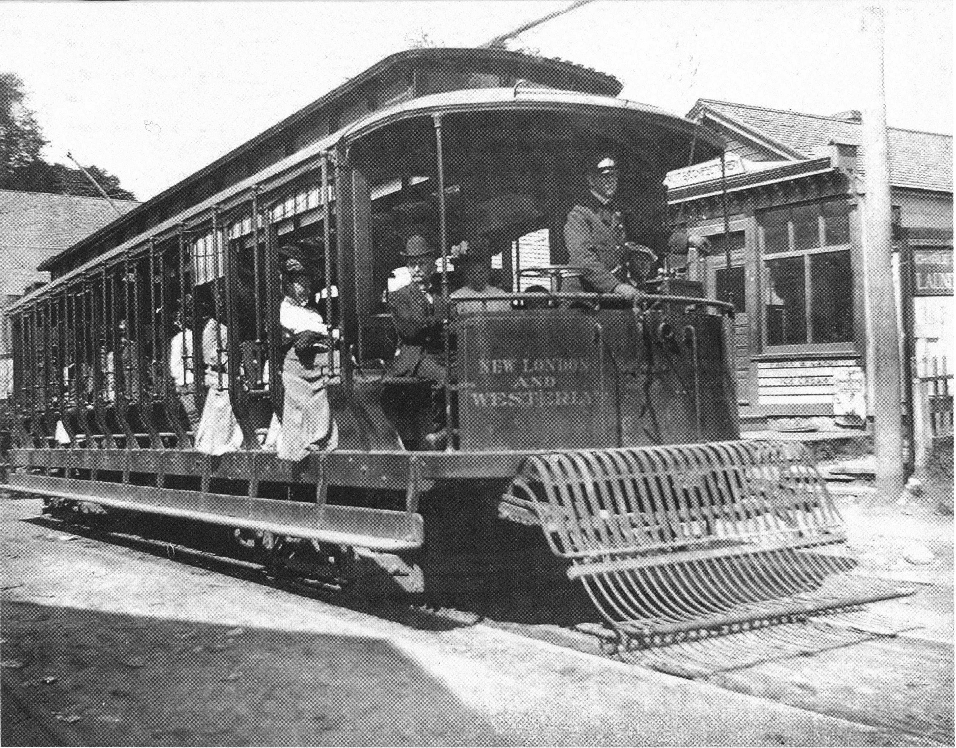 A Groton and Stonington Street Railway car (labeled as New London and Westerly) at its Groton terminus, the corner of School and Thames Streets.